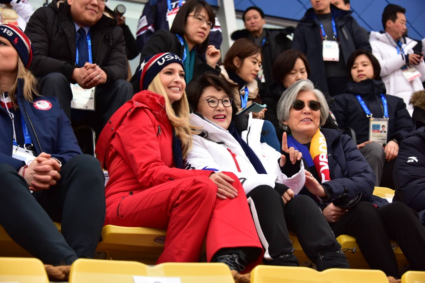 Ivanka Trump at 2018 Winter Olympics